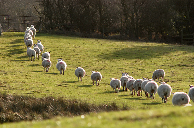 A crocodile of sheep Shropshire sheep on Luckley Hill.